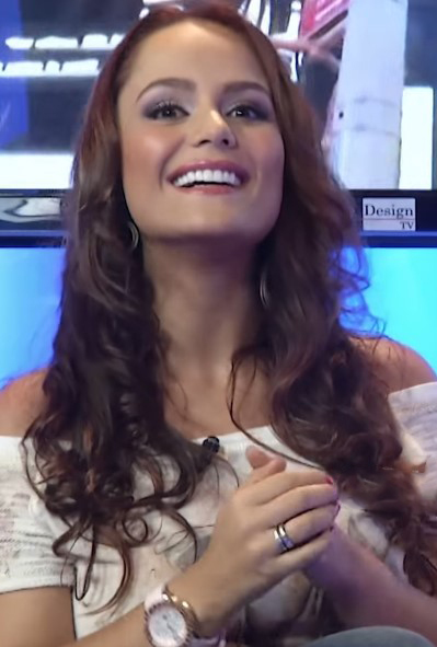 Ana Lucía Domínguez in 2014